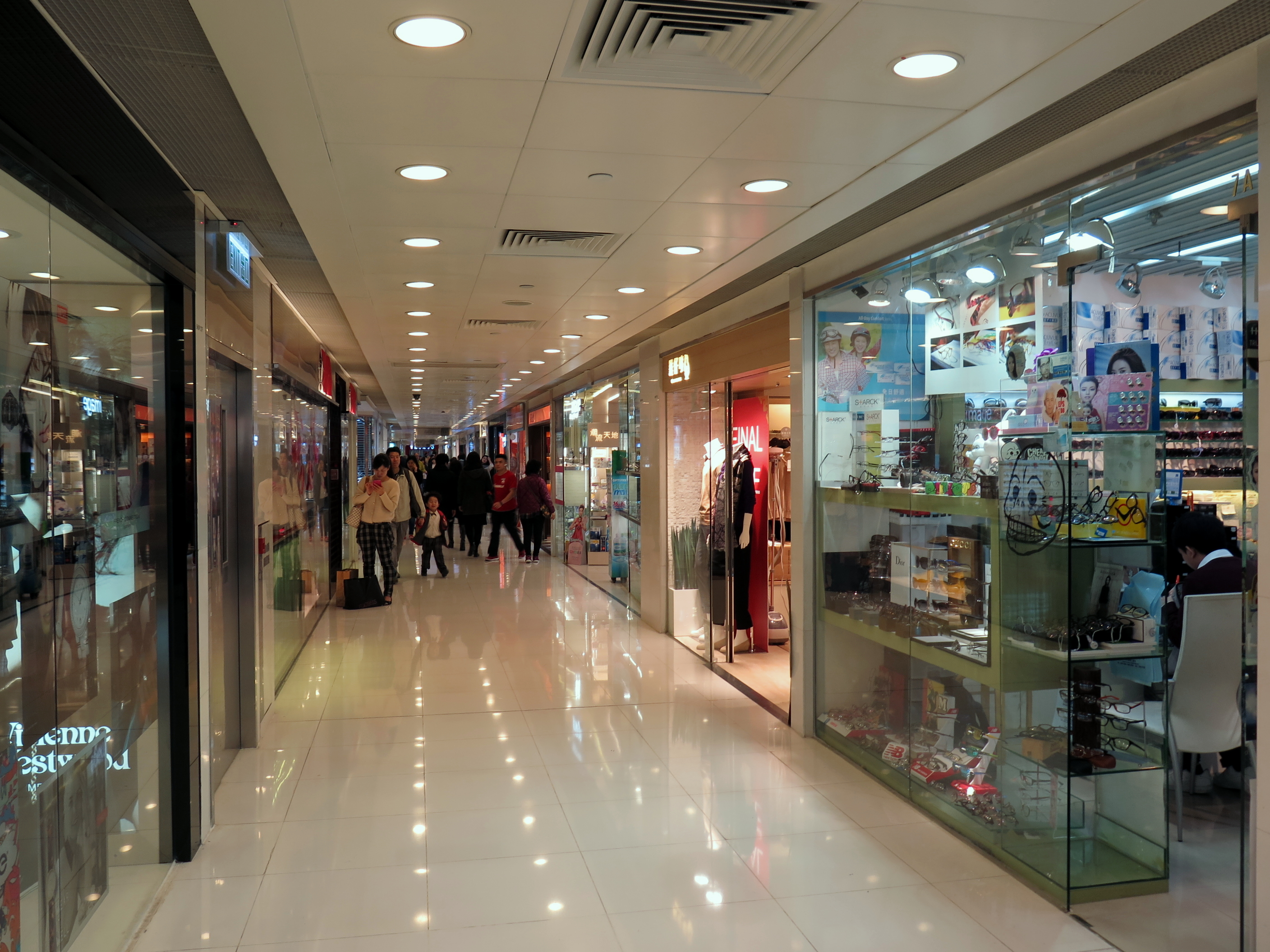 Shatin Plaza L3 Access